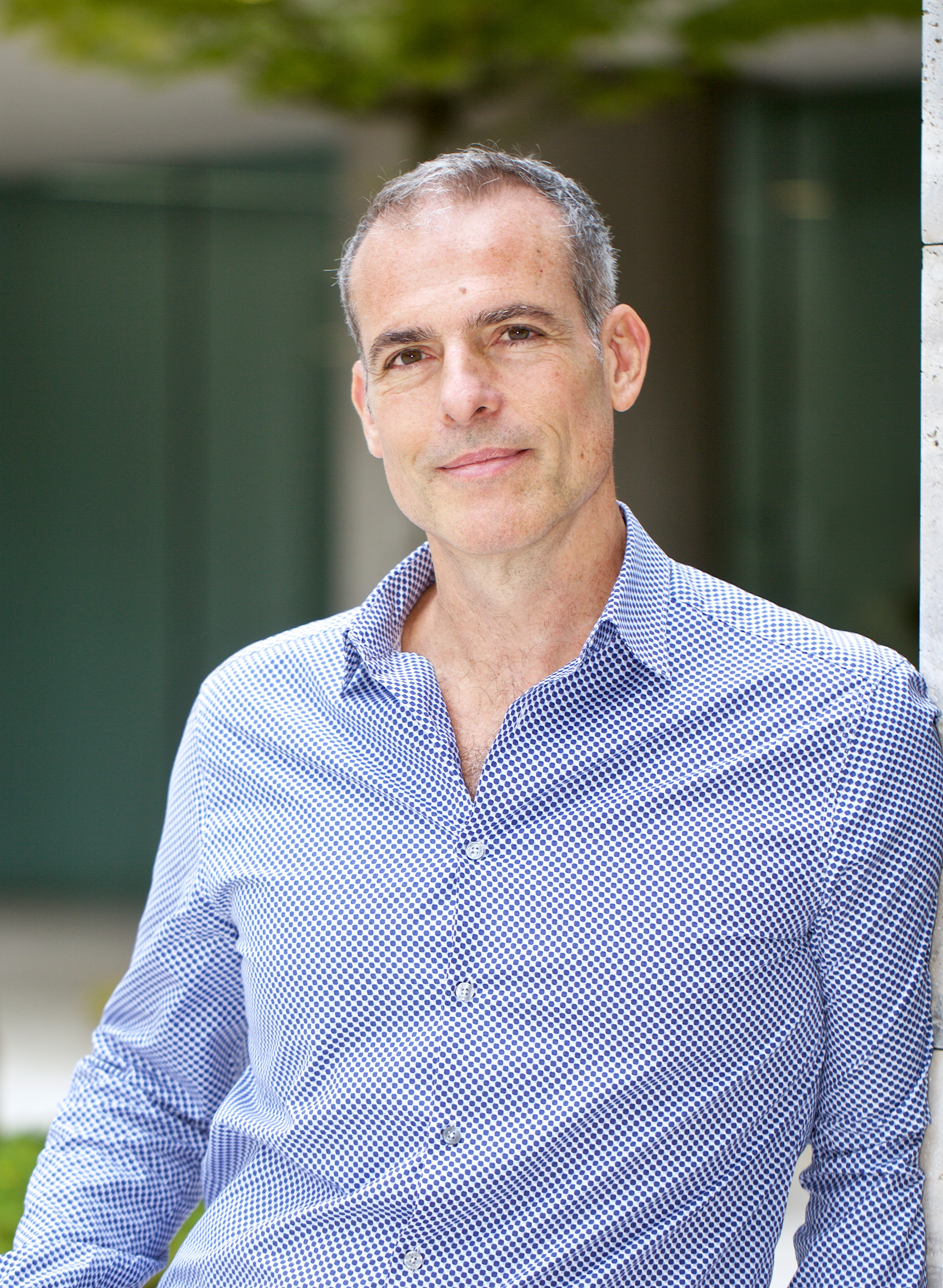 Sage 14th September 2017